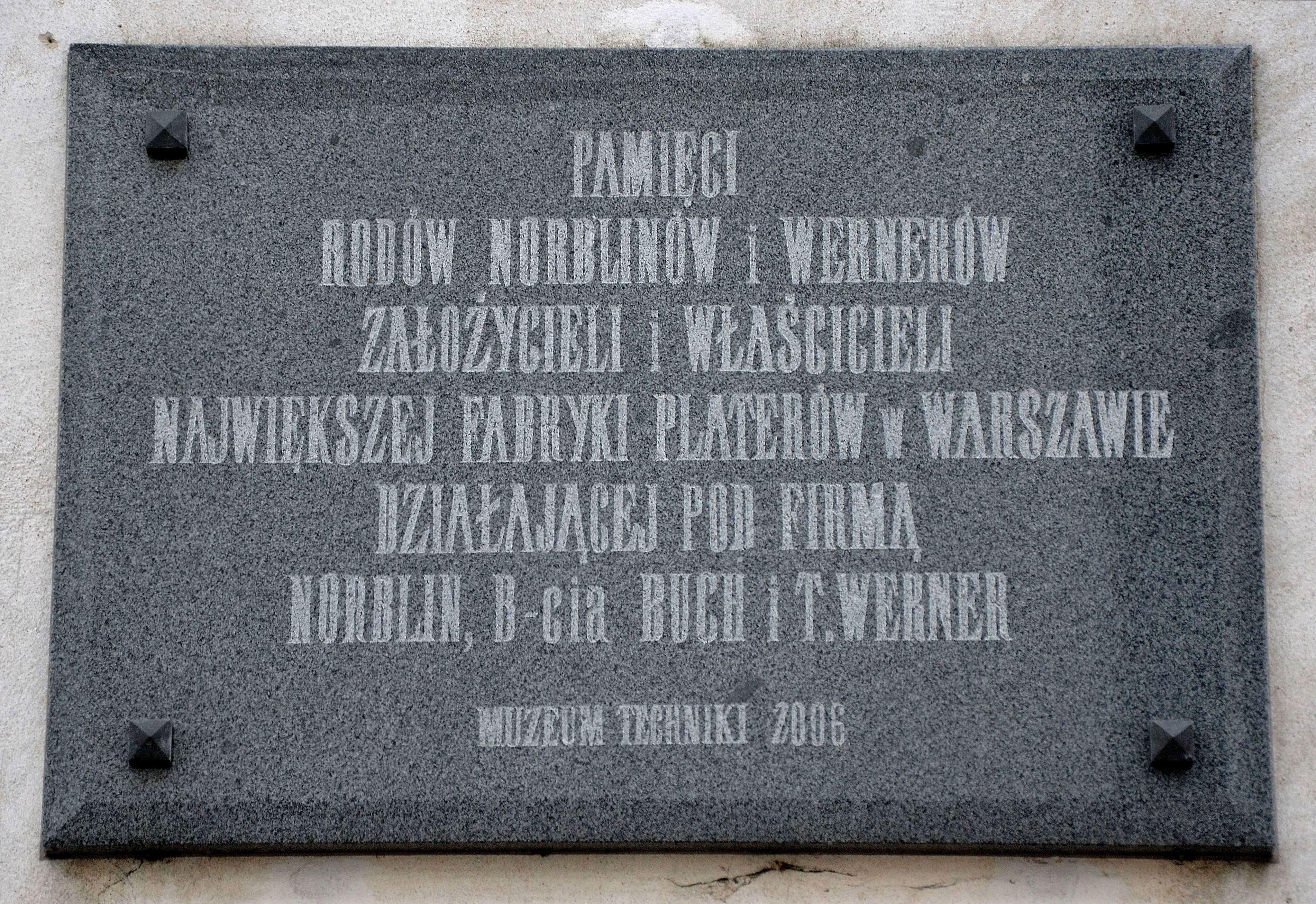 Commemorative plaque at 53 Żelazna Street (from the courtyard)